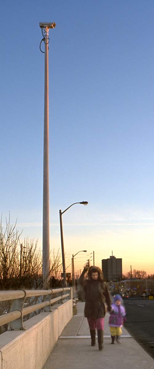 Surveillance camera on cement pole. Here's a typical Toronto surveillance camera, near the outskirts of the city, in a kind of suburban area, as viewed during sunset. I took this picture for use in a February 1995 article on the "gas stove analogy" of privacy. The picture appearing here in the Wikipedia is a low resolution downsampled, cropped image, but the picture can be obtained, at higher resolution, by following the link at end of the above mentioned "gas stove analogy" article. For other similar pictures, see